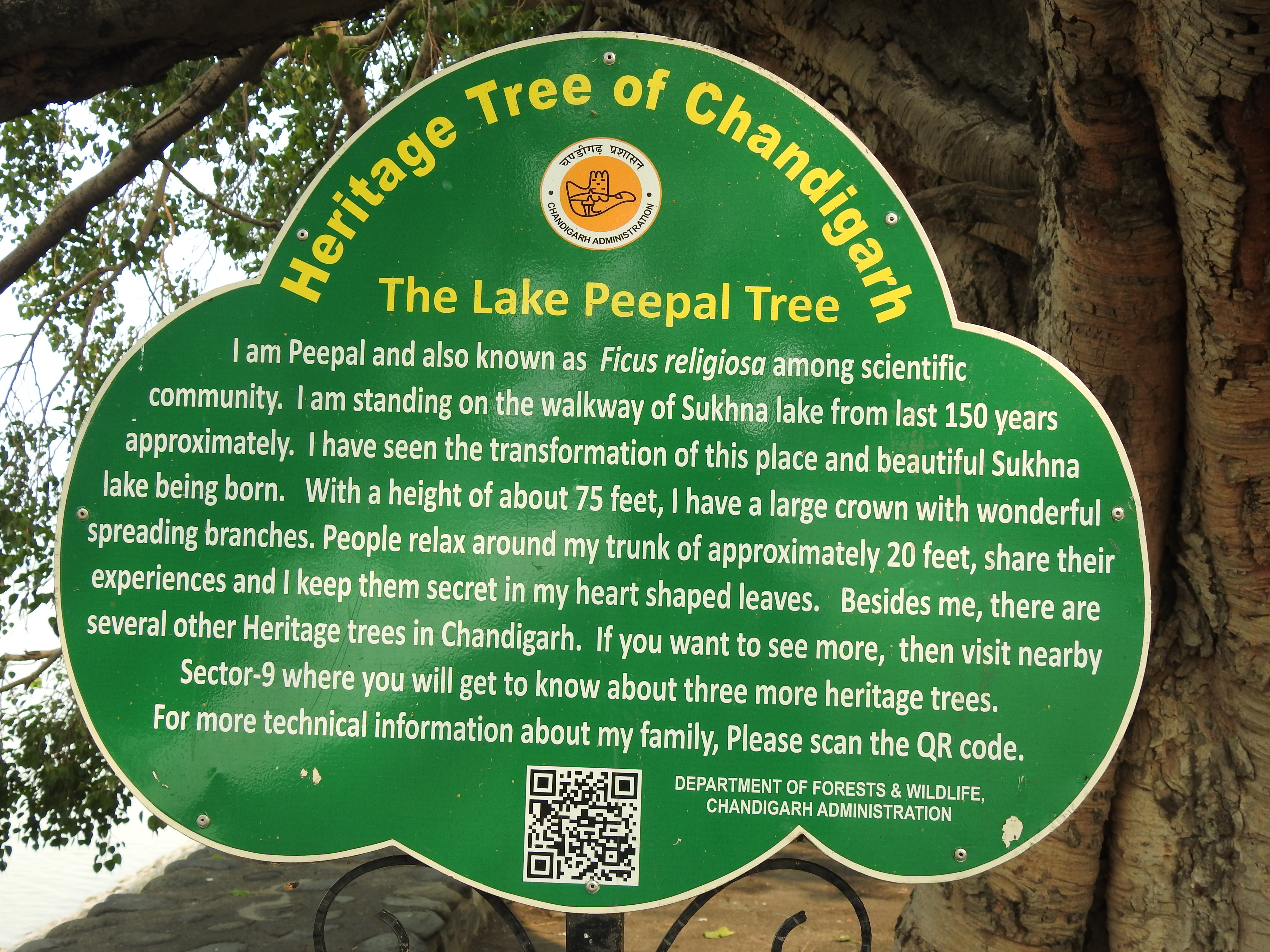 Heritage Trees of Chandigarh are tose trees which are 100 years old were identified and put in a list of “heritage status. This board sign of Peepal Heritage Tree is placed near the tree situated on bank of Sukhna Lake , Chandigarh.